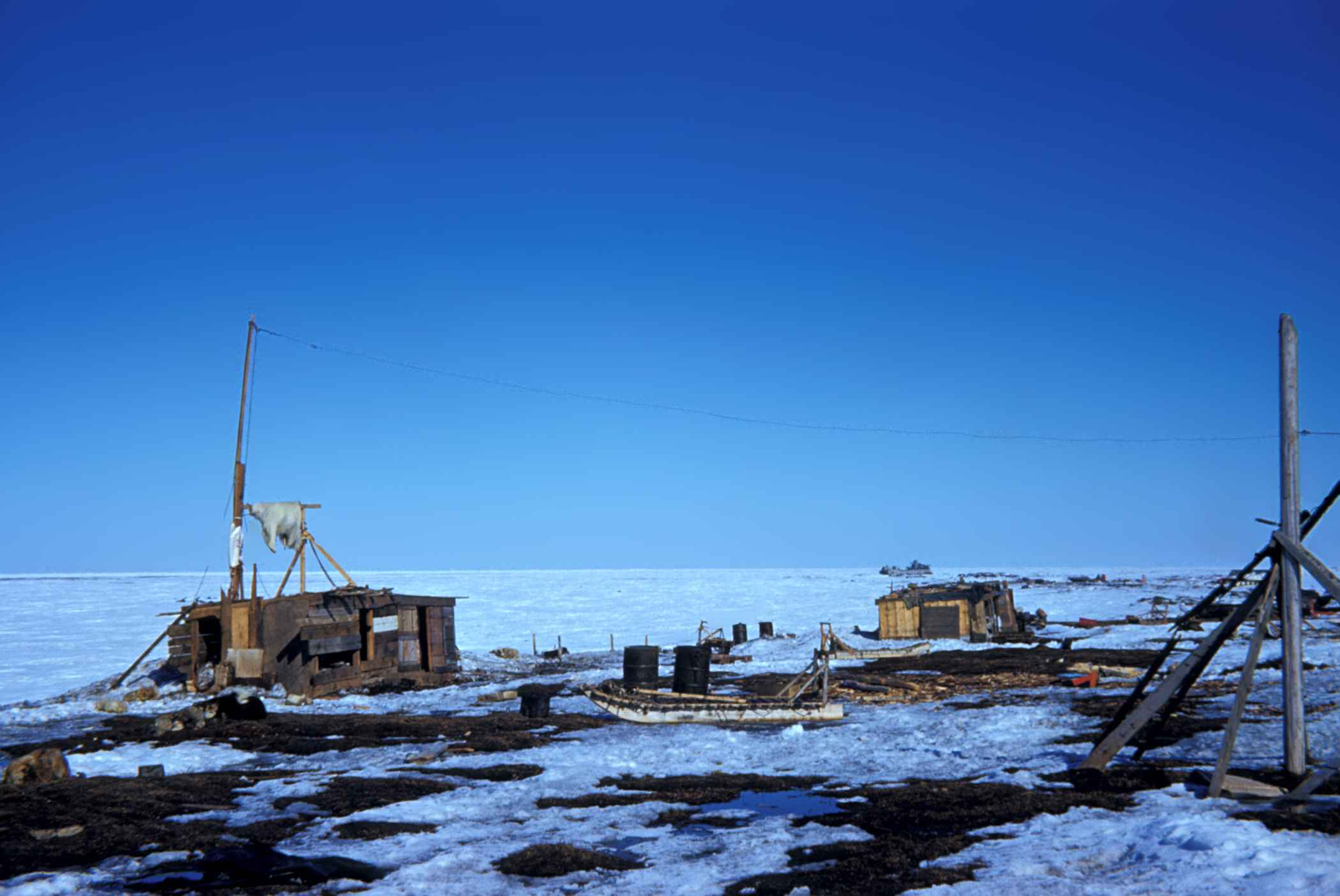 Image title: Barter island village, (possibly Kaktovik?) Image from Public domain images website